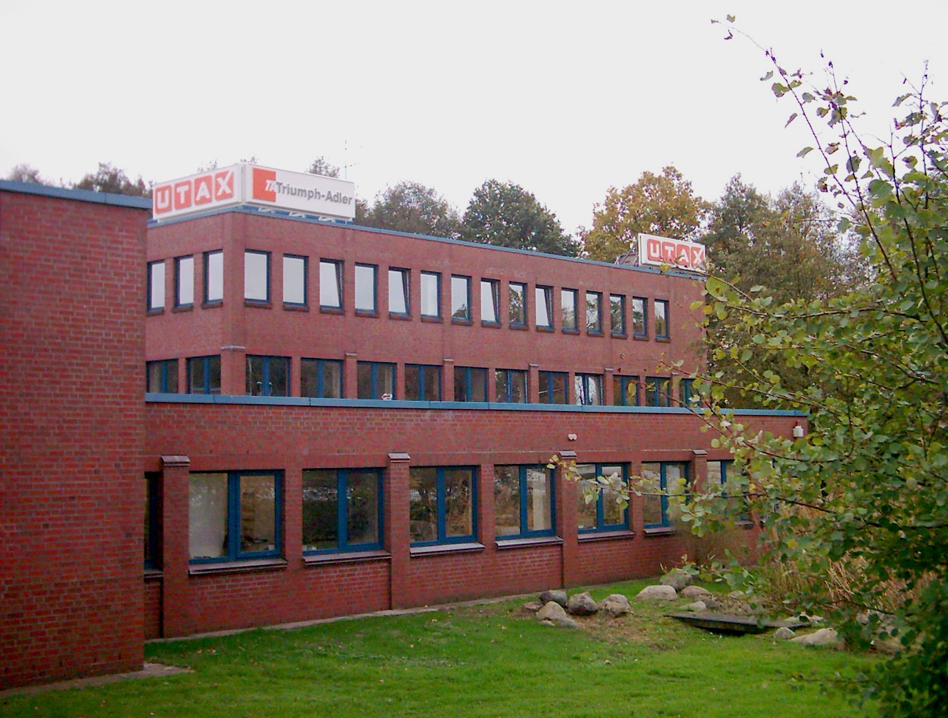 Brand of TA TRIUMPH-ADLER AG, Norderstedt, Germany.